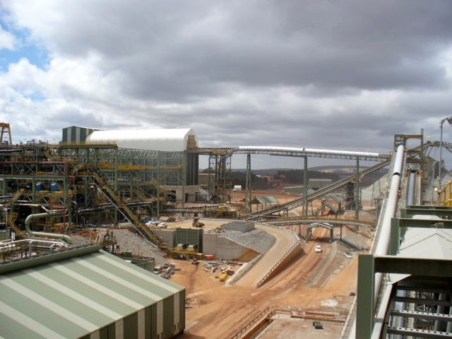 Picture of the Boddington Gold Mine, Western Australia.